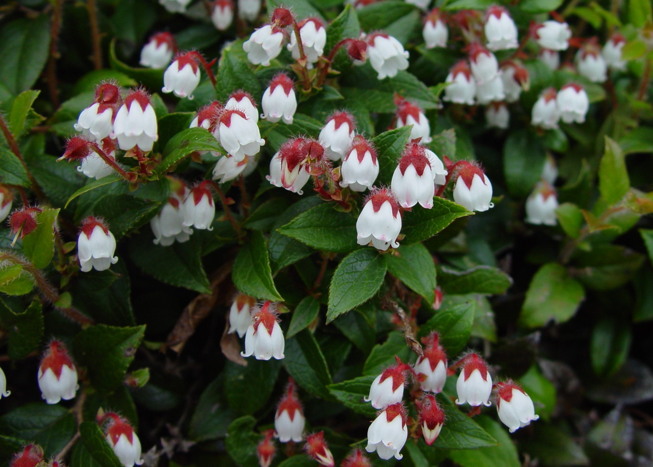 Gaultheria adenothrix (Miq.) Maxim., in Mount Sannomine, Ryōhaku Mountains, Japan.